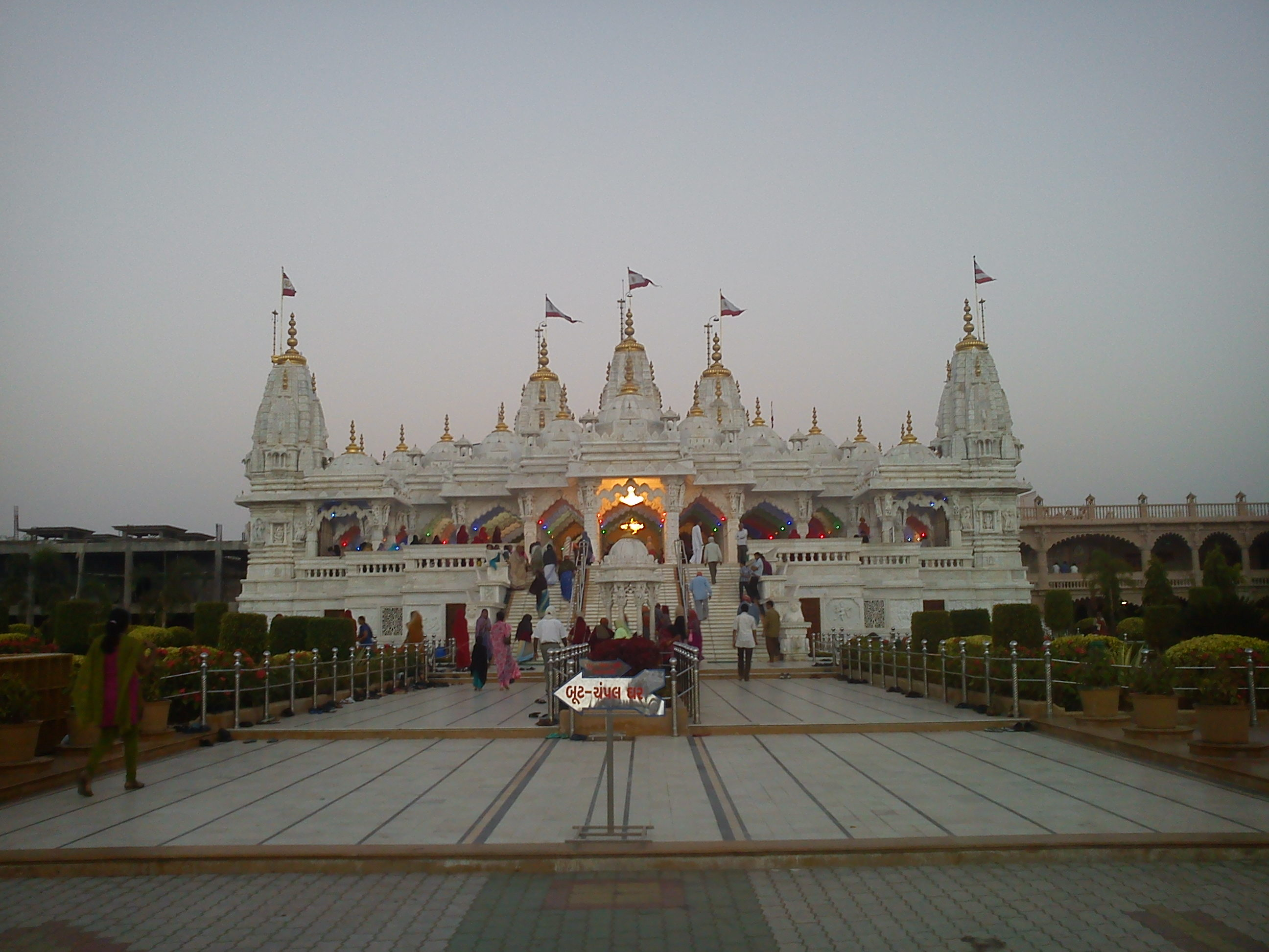 view of- swaminarayan temple